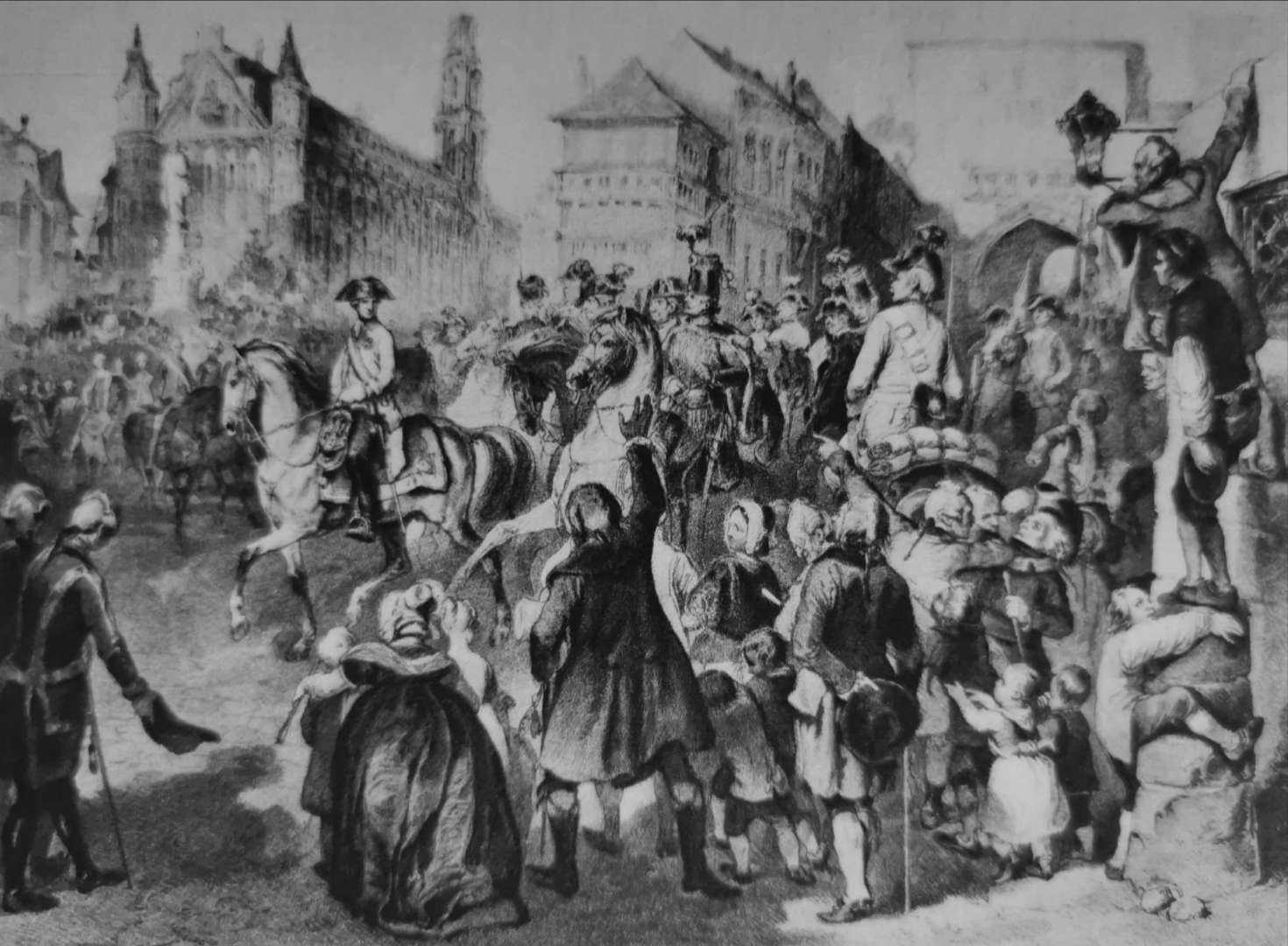 Litho of the entry of archduke Charles into Brussels on 26 March 1793, by Johann Nepomuk Geiger